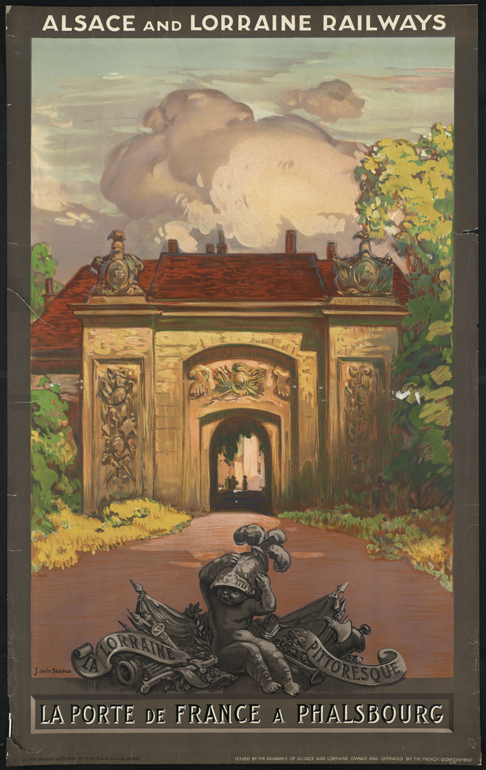 Poster of Alsace and Lorraine Railways La Porte de France à Phalsbourg.